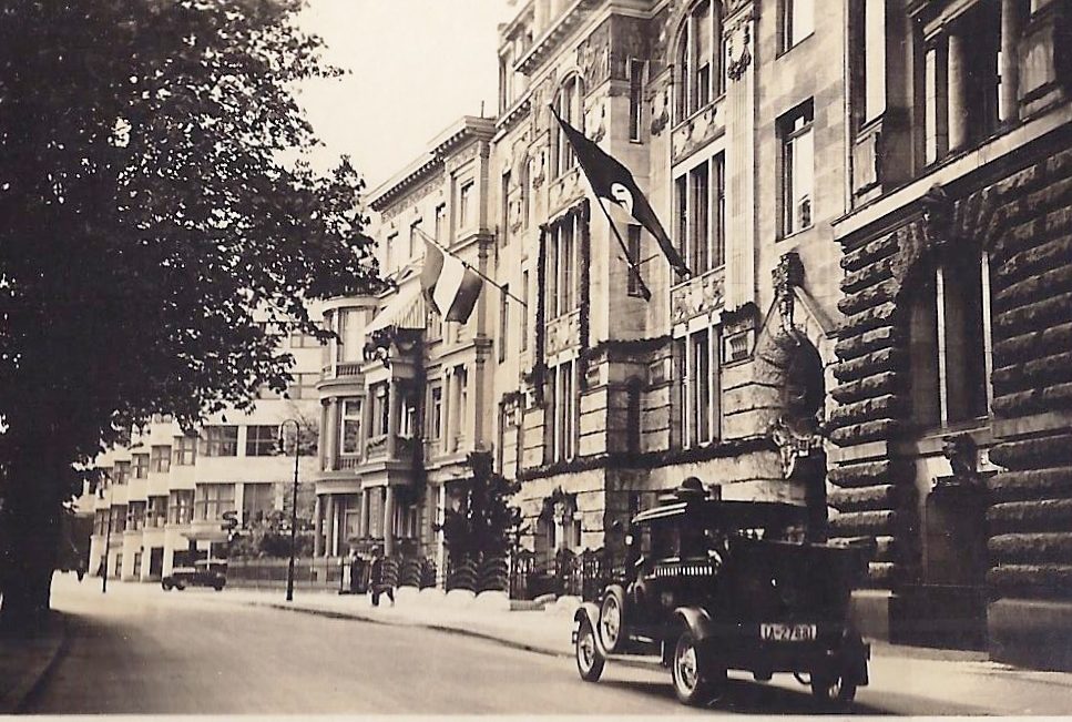 Berlin 1934 - Headquarters Reichsgruppe Industrie